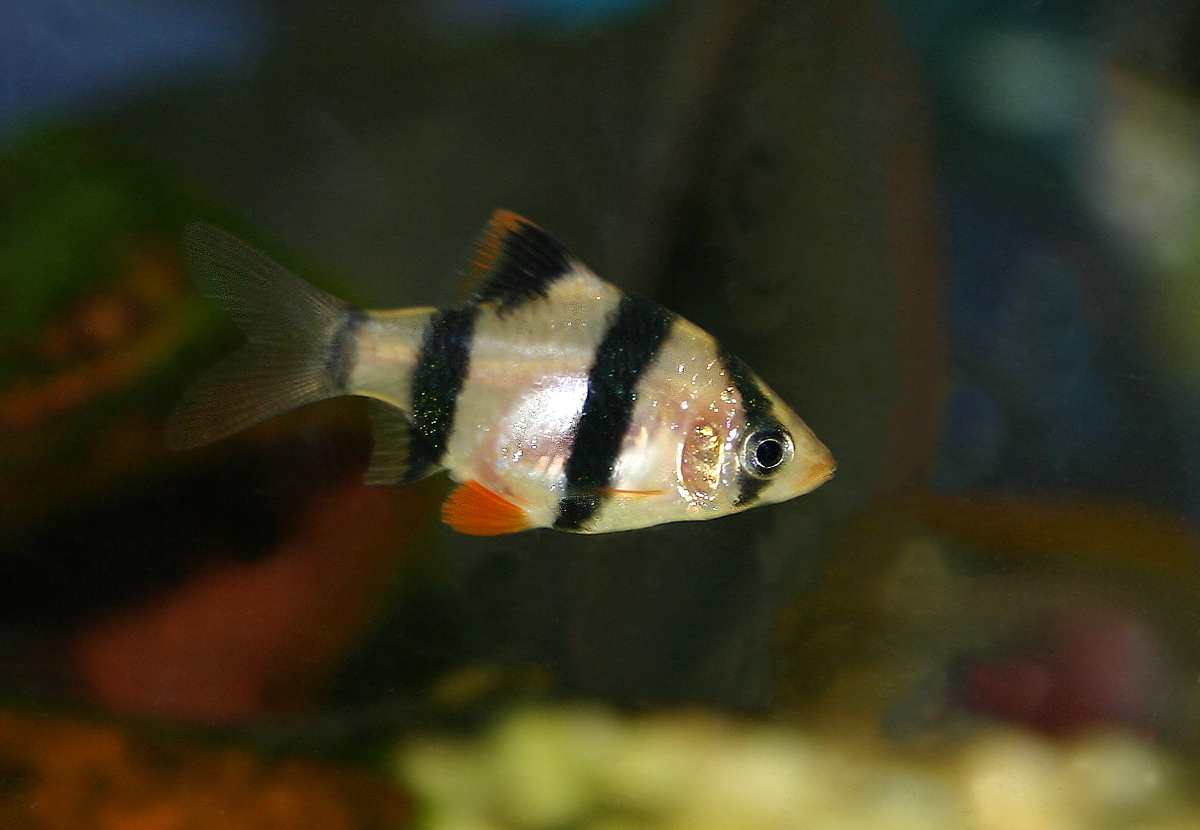 Tiger barb (Puntius tetrazona)